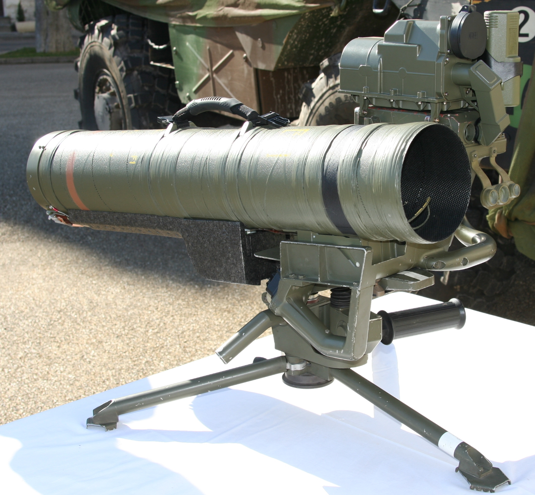 ERYX missile launcher, 2nd Foreign Infantry Regiment (France)